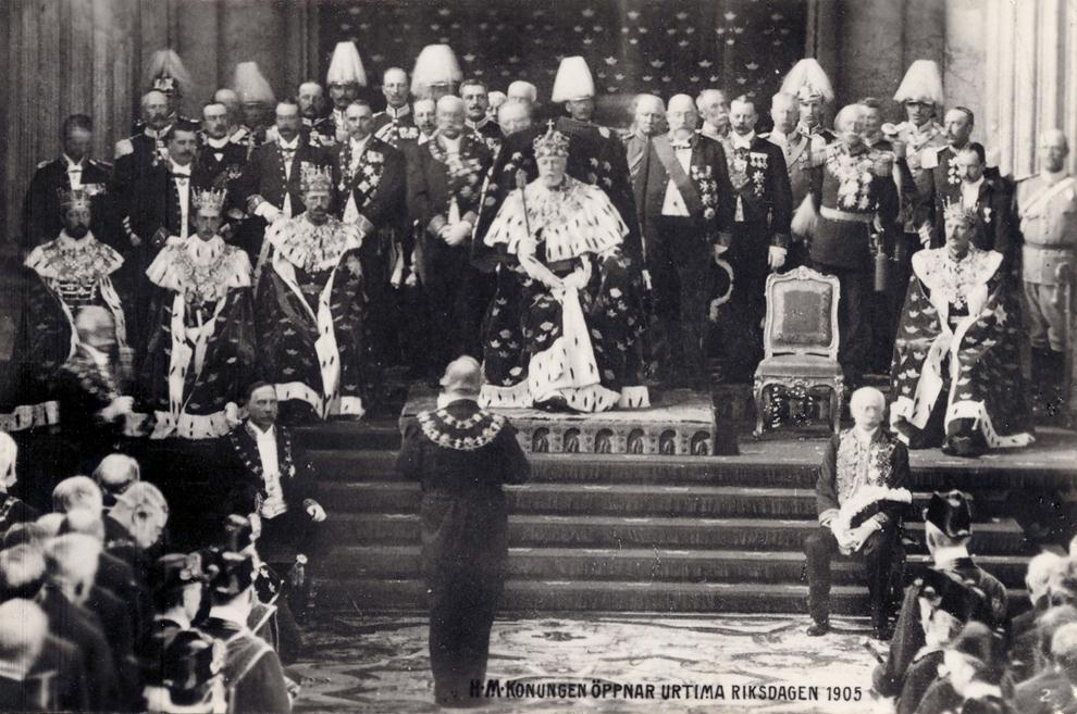 King Oscar II opens an extraordinary session of the Swedish Parliament in 1905 (Princes in coronets l-r: Eugen, Wilhelm, Gustav (V) and Carl); Place: Throne Room, Royal Palace, Stockholm, Sweden.